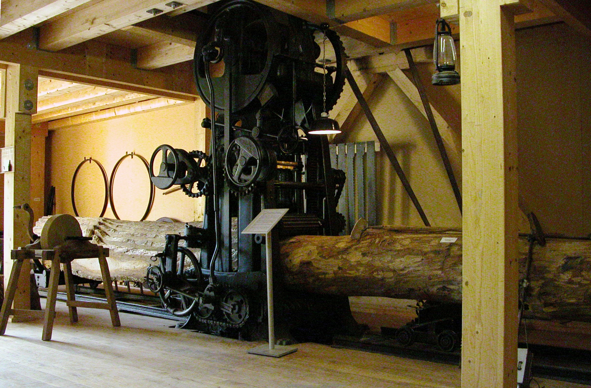 Reciprocating saw, Open air museum Roscheider Hof, Konz, Germany